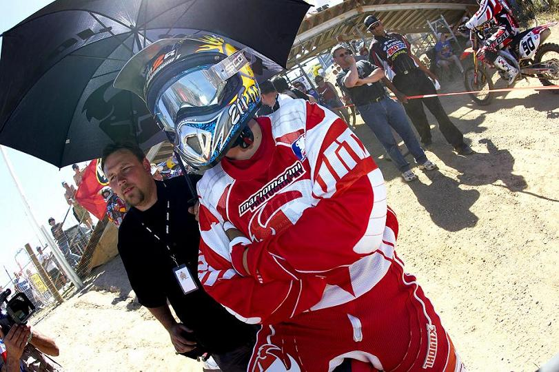 Stefy Bau at AMA National Race: Hangtown.